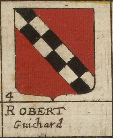 Attributed Coat of Arms of Robert Guiscard, according to Jean Boisseau